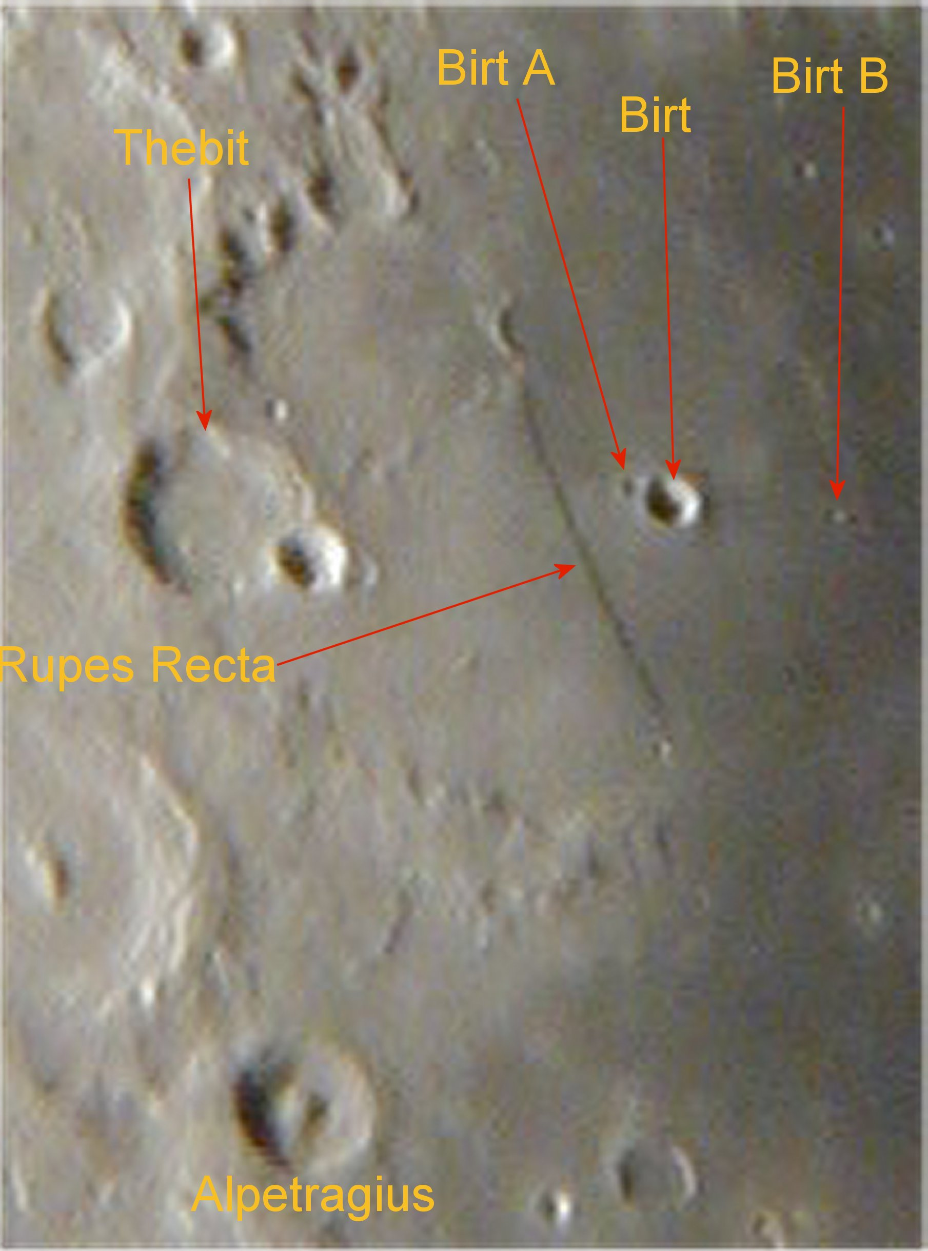 I took this photo of Rupes Recta (and the surrounding area) on 4 Oct 2003. I took this picture using an Olympus 460Z digital camera attached to a 25mm Scopetronix lens with a 2x Barlow and a 4.5" telescope Due to being taken through a telescope this image is inverted.